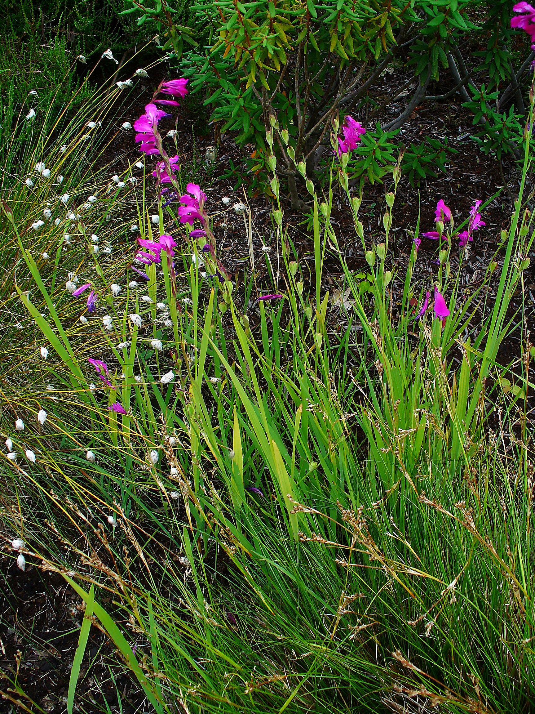 Gladiolus palustris, Iridaceae, Marsh Gladiolus, habitus; Botanical Garden KIT, Karlsruhe, Germany.